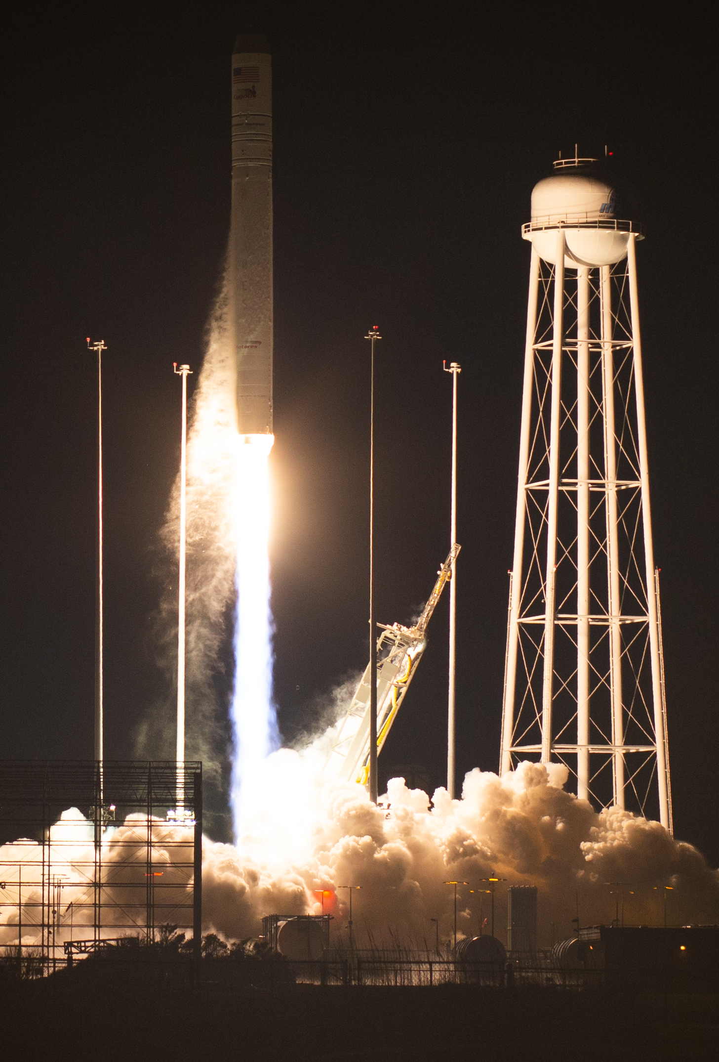 The Northrop Grumman Antares rocket, with Cygnus resupply spacecraft onboard, launches from Pad-0A, Saturday, Nov. 17, 2018 at NASA's Wallops Flight Facility in Virginia. Northrop Grumman's 10th contracted cargo resupply mission for NASA to the International Space Station will deliver about 7,400 pounds of science and research, crew supplies and vehicle hardware to the orbital laboratory and its crew.